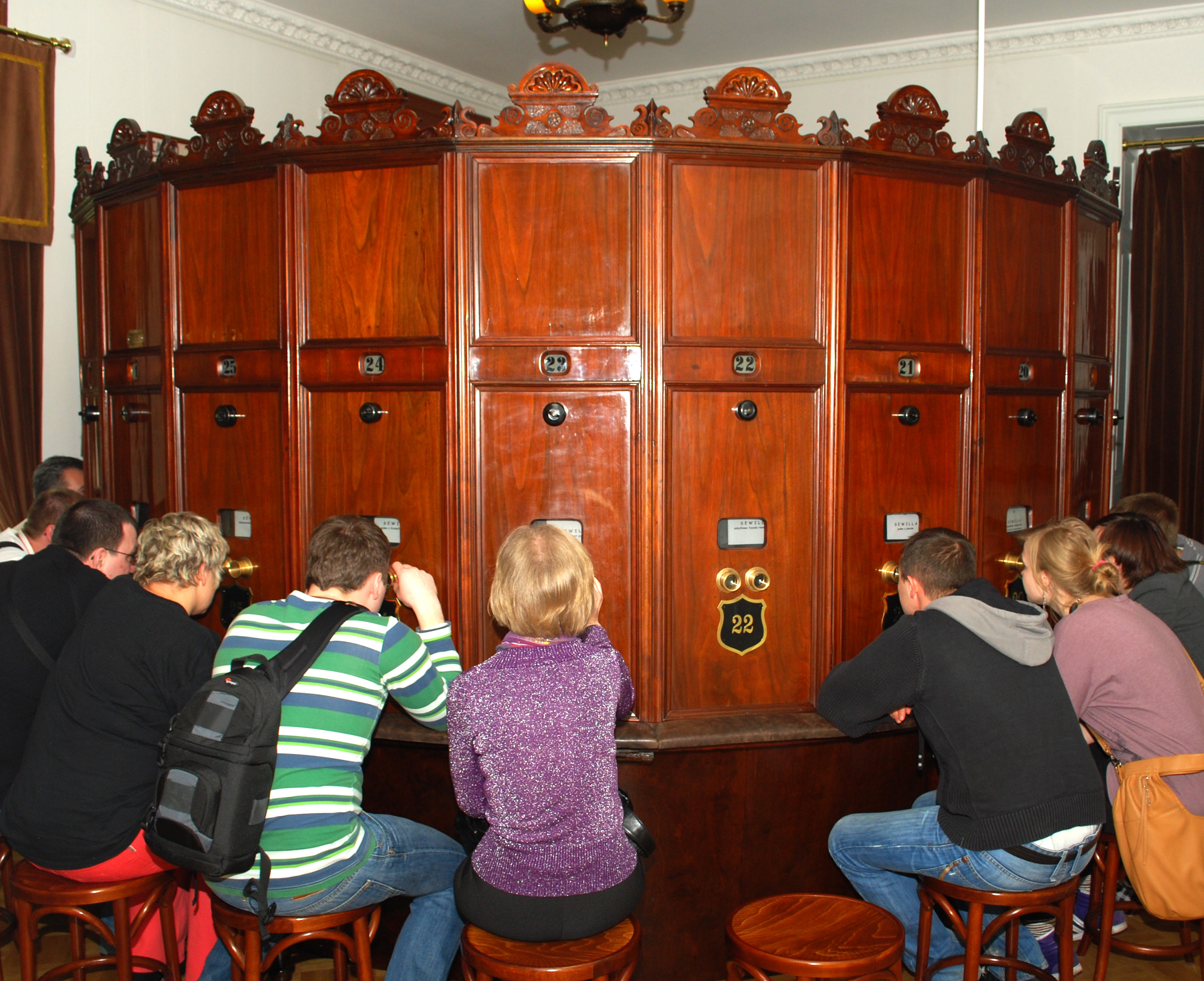 This picture was taken during the photographic wikiworkshop organized by the Association of Wikimedia Poland. All pictures of the workshop you can see in the category wikiwarsztaty 2010. Fotoplastikon w Muzeum Kinematografii